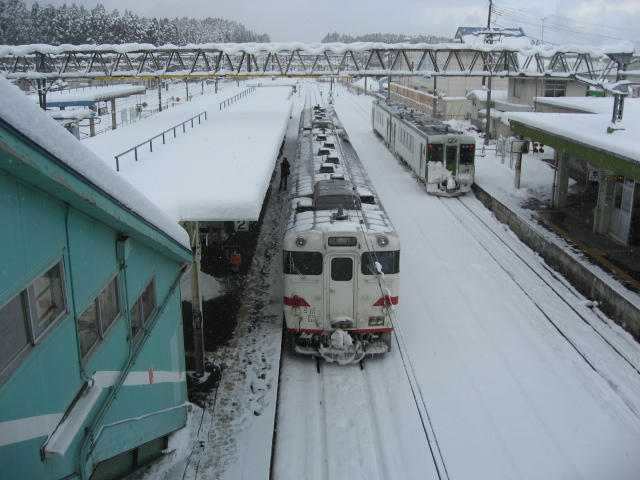 Noheji Station, on the Tohoku Main Line and Ōminato Line, Noheji, Aomori